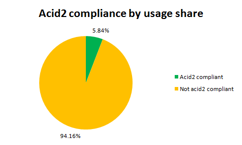 Pie chart showing Acid2 compliance by usage share, using statistics from Net Applications